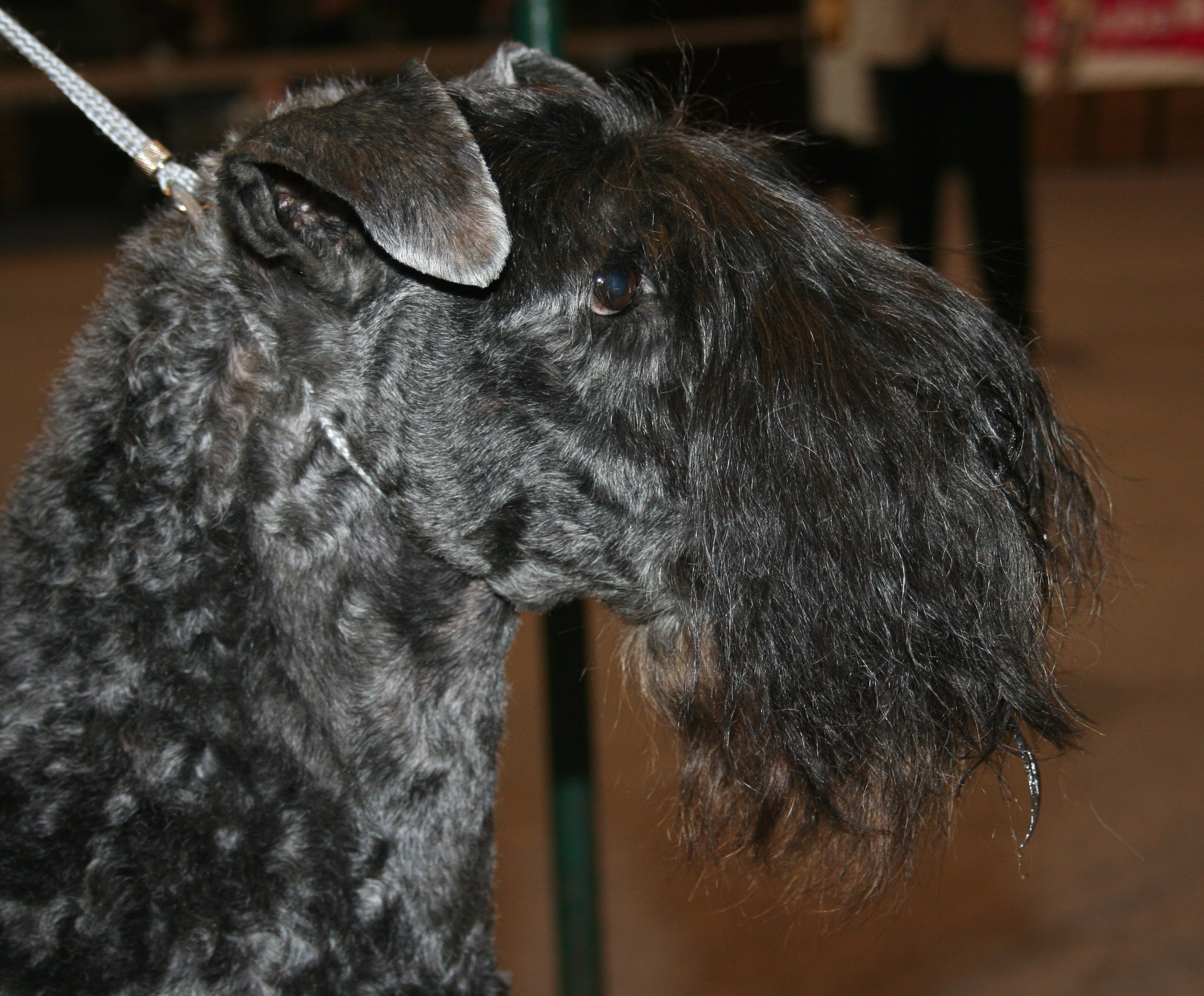 Kerry Blue Terrier during dogs show in Katowice, Poland